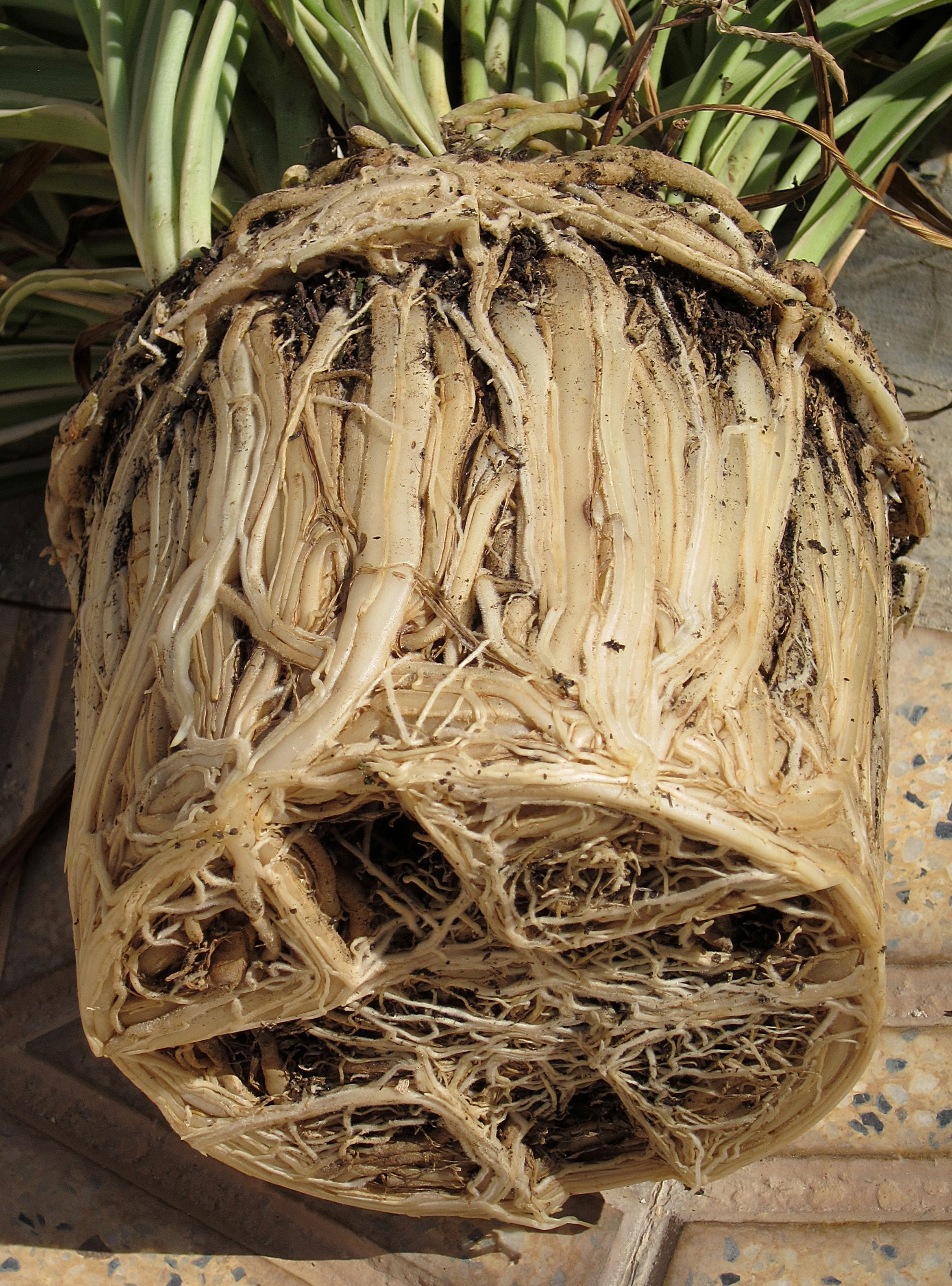 This is a chlorophytum comosum or spider plant to you and me. As you can see it desperately needed re-potting. In spite of this tight root ball, the plant is healthy, lives outside and has sent out numerous runners which have rooted in the soil. It even has flowers which indicate it is a mature plant. Thanks to my timely intervention, it now lives in a larger pot which I dare say it will outgrow in a year's time. (original text)